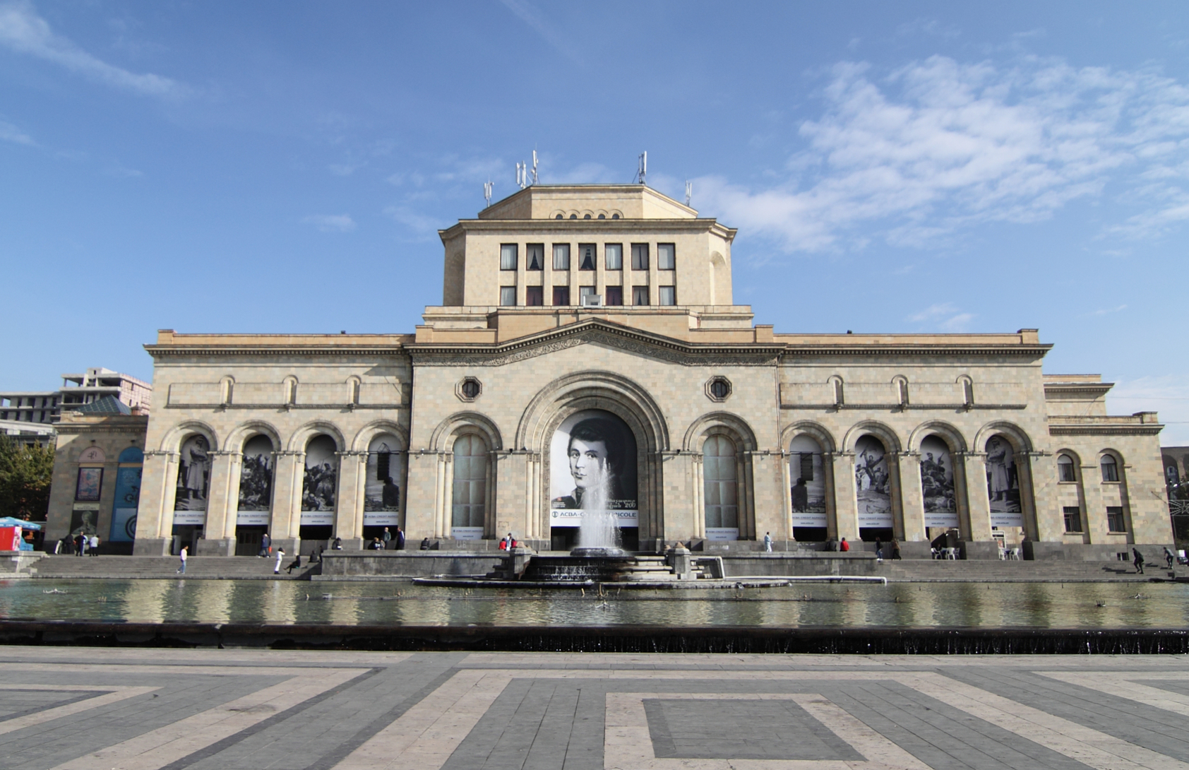 The National Gallery of Armenia in Yerevan.